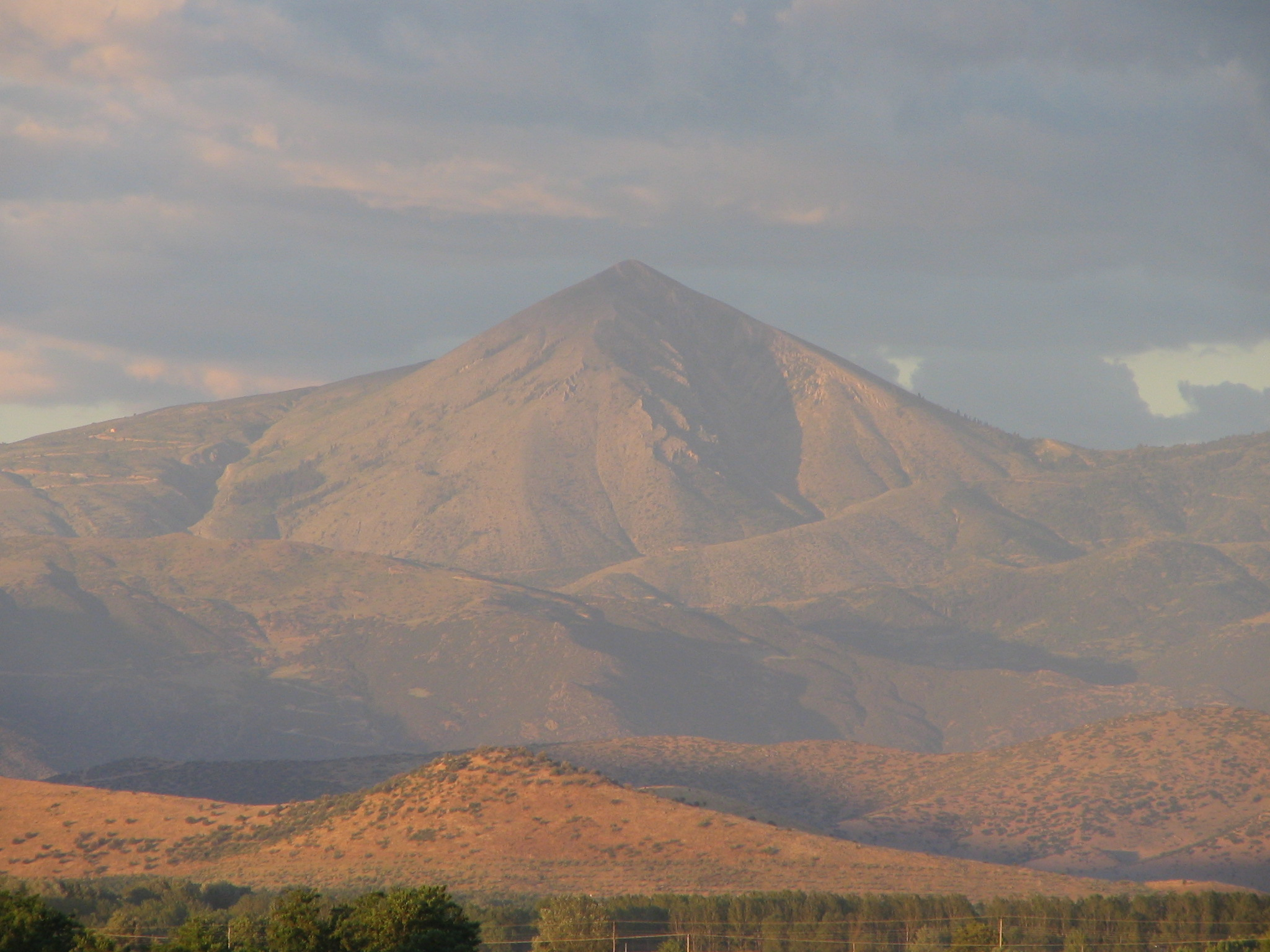 A distance view of the west side of Kissavos otherwise known as Ossa Mountain under the sunset from a village road in Thessaly